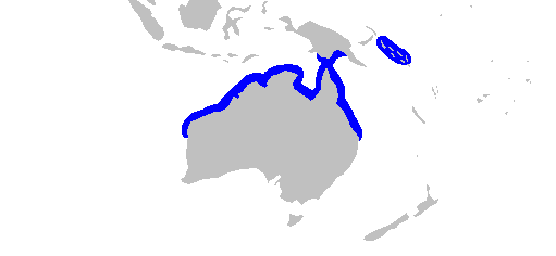 Distribution map for Carcharhinus cautus